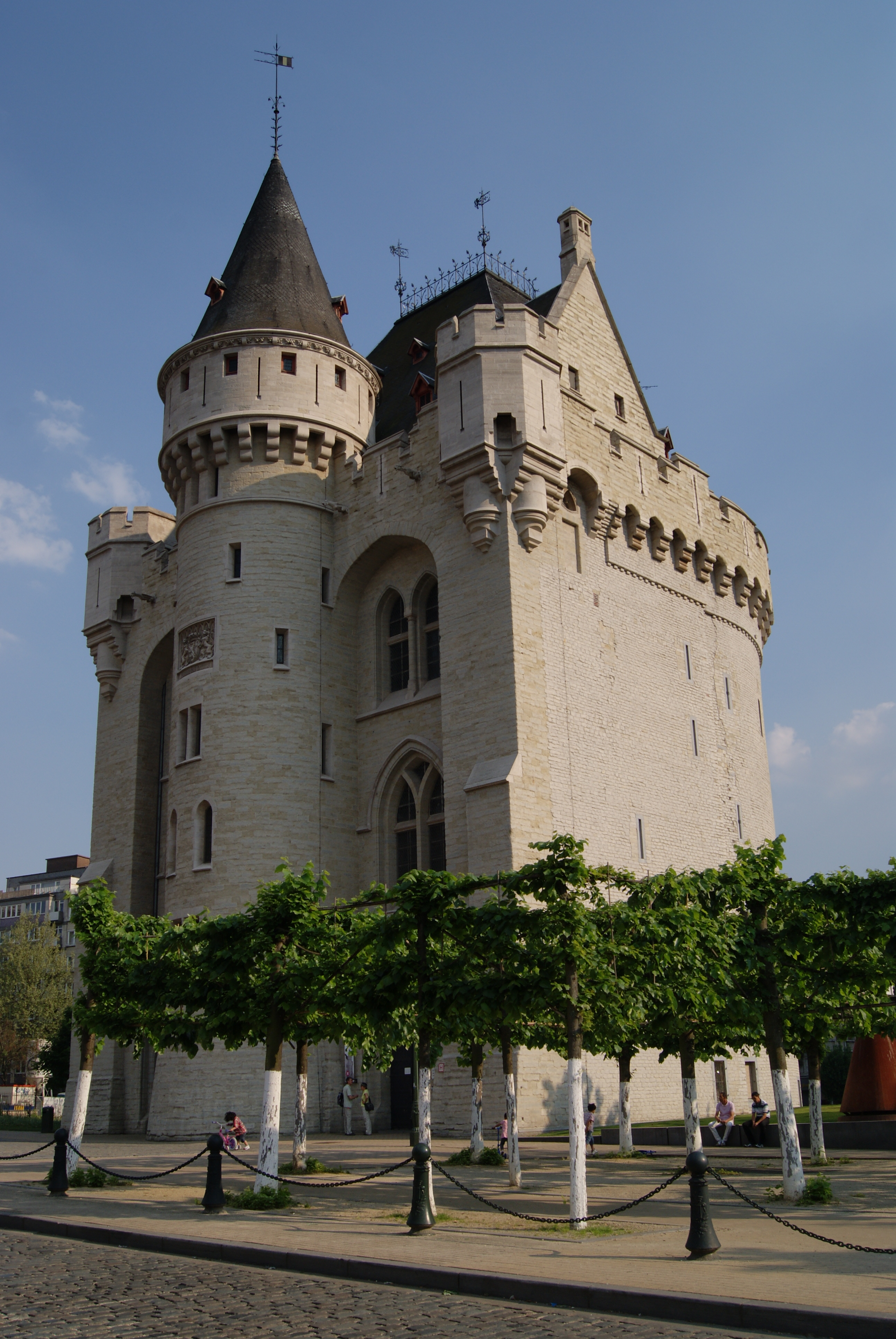 Porte de Hal (French)/Hallepoort (Dutch) is a medieval fortified city gate of the second walls of Brussels. The picture is showing it from the Brussels side (2011).